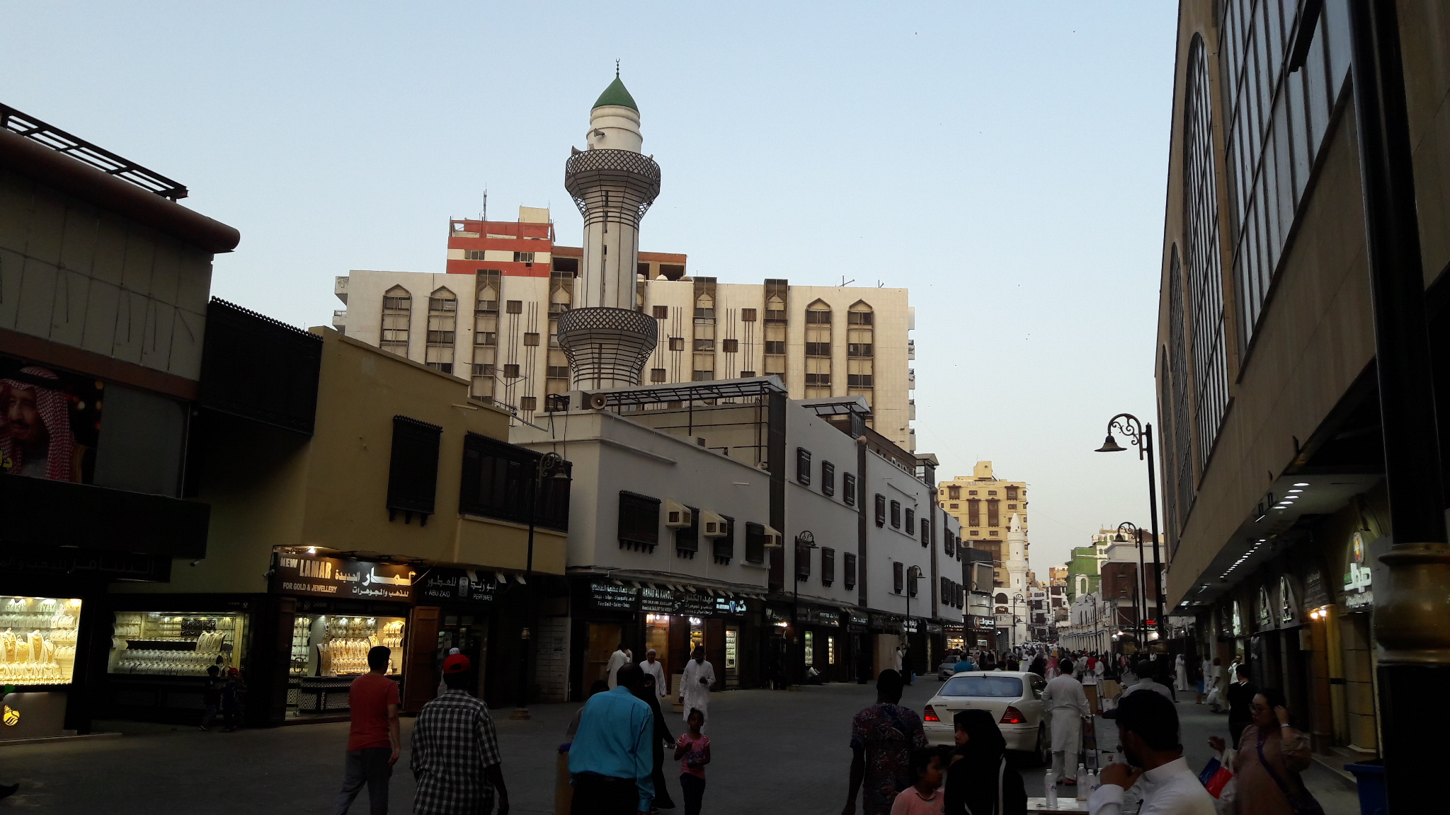 Akkash Mosque, Old Jeddah